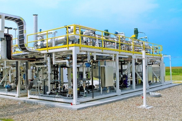 Industrial Demonstration Plant for proving viability of bio-polymers